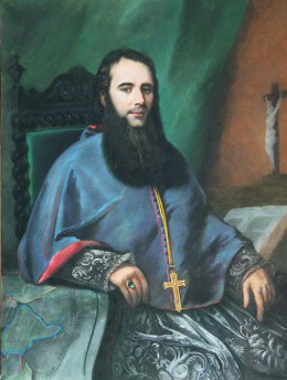 Portrait of Melchior de Marion Brésillac (†1859), founder of the Society of African Missions.